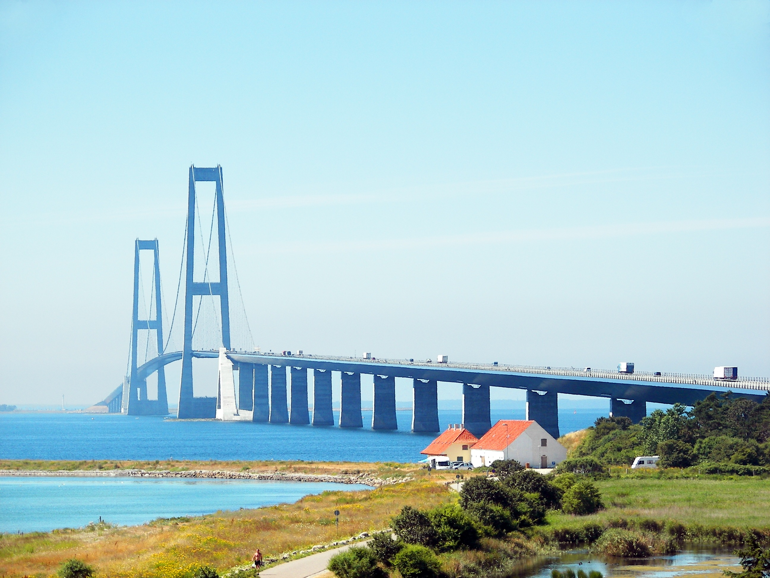 Storebæltsbroen as seen from 'Bro og naturcenter', Sjælland, Denmark.